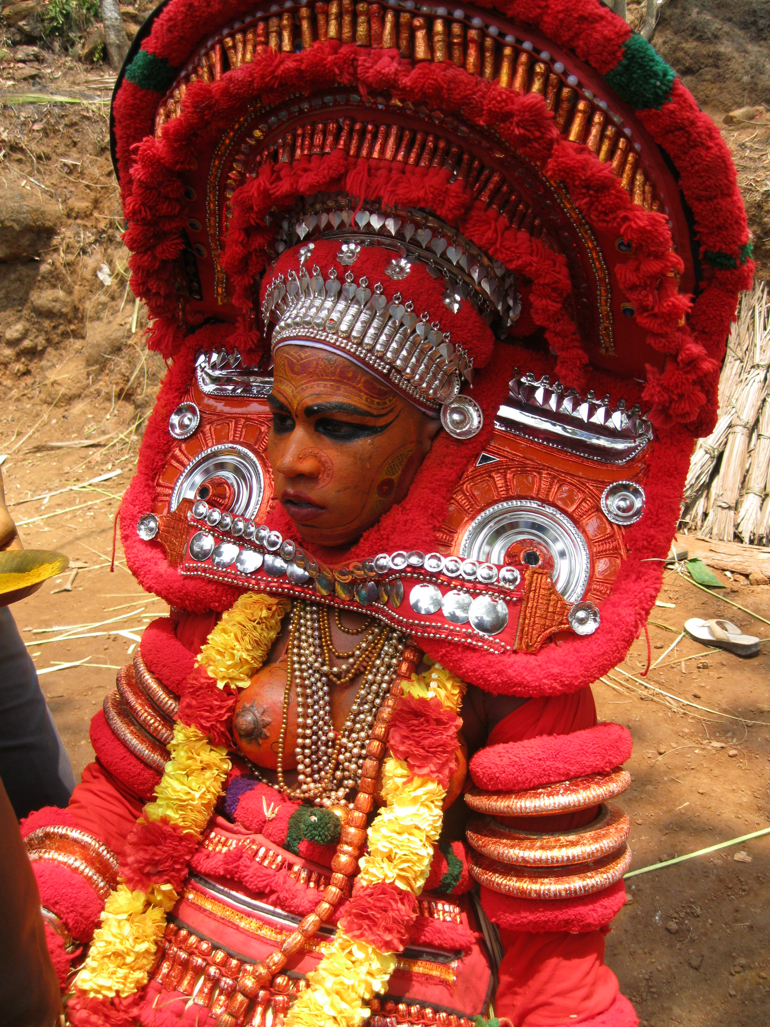 kurathi theyyam blathur ,kannur, kerala